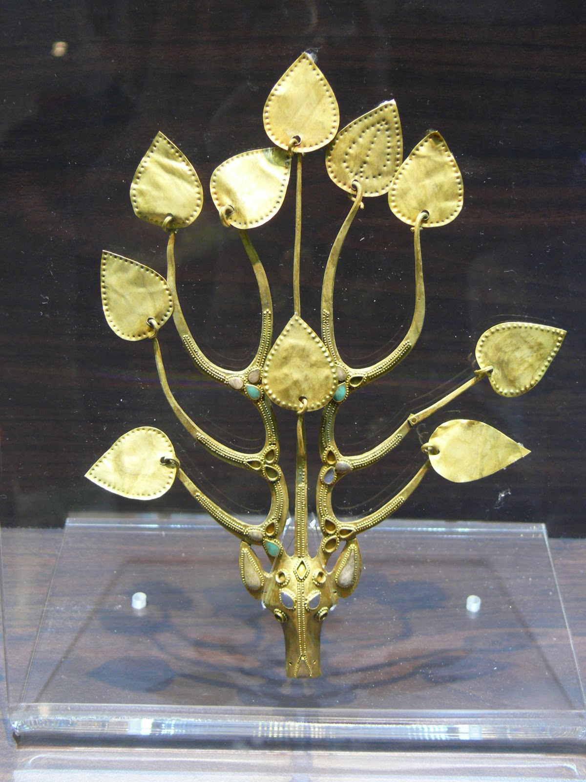 Qidan_1-3C_CE,_Batou_city,_Inner_mongolia,_1981